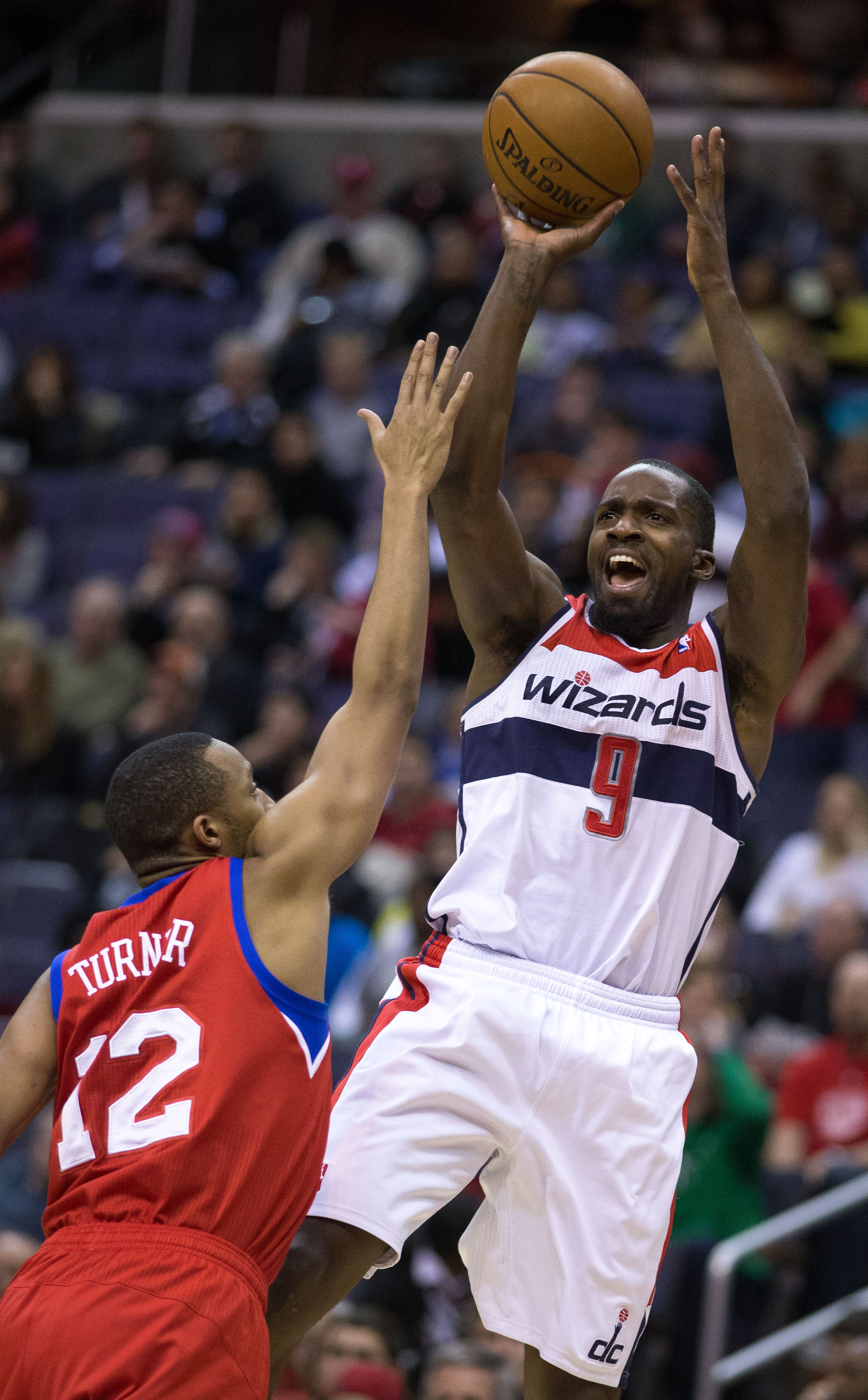 Philadelphia 76ers at Washington Wizards March 3, 2013